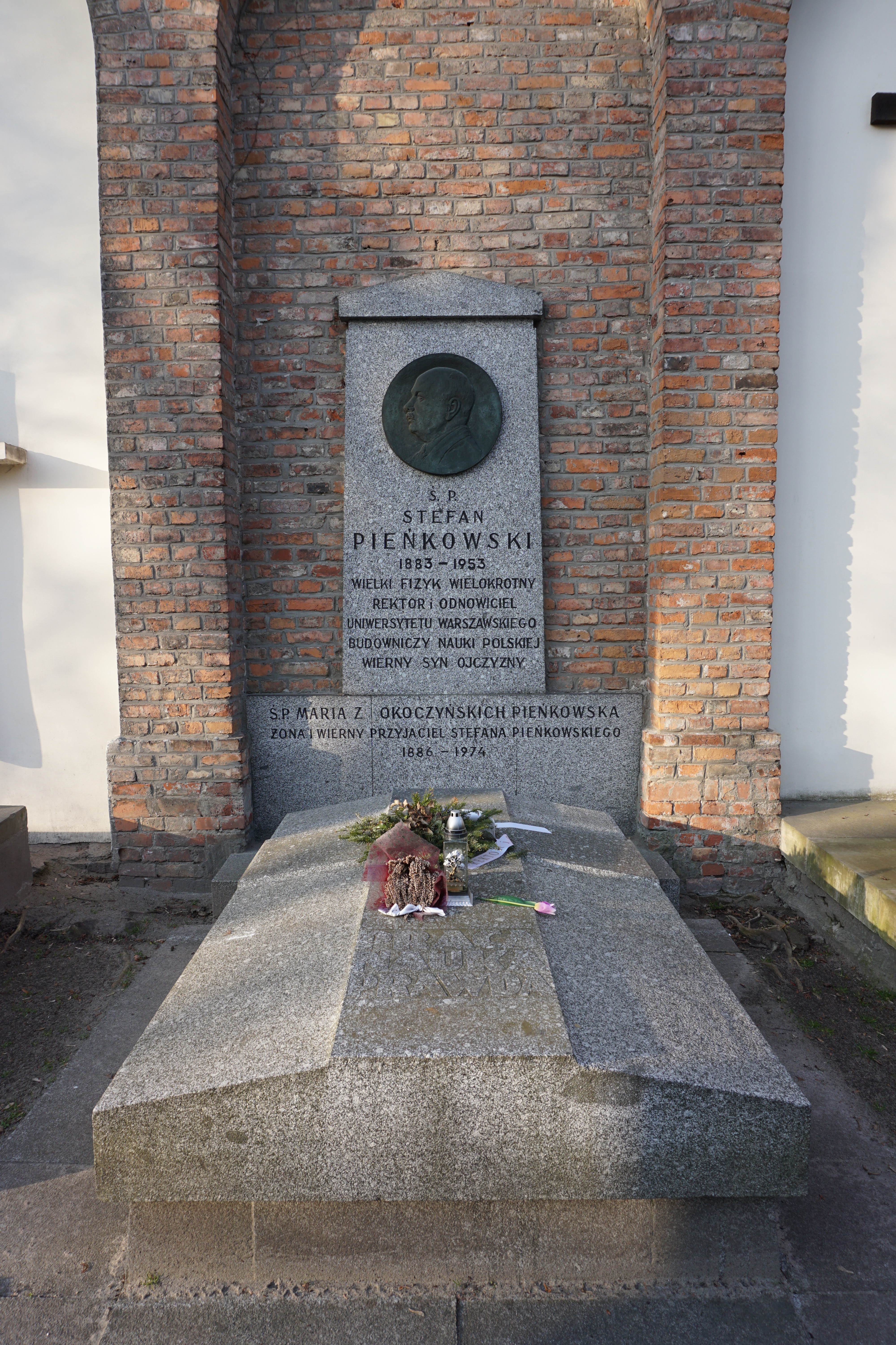 The grave of Stefan Pieńkowski at the Powązki Cemetery (Avenue of Deserved, grave 42, 43)